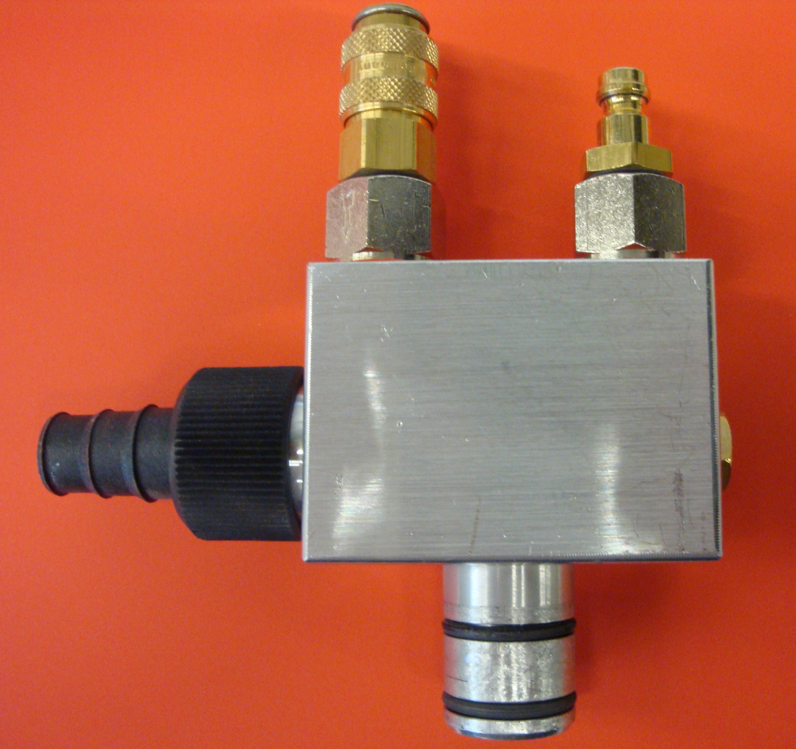 Injector for transportation of powder coatings material